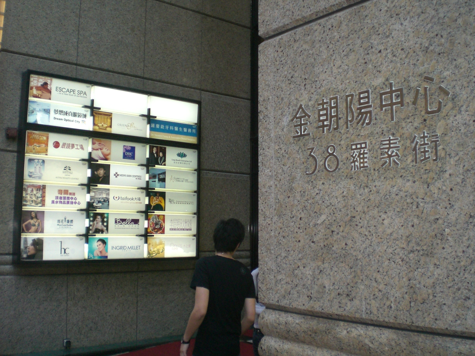 金朝陽集團, 羅素街, Russell Street, Causeway Bay, Hong Kong.